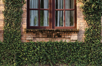 Ivy-covered walls of The Doon School main building.